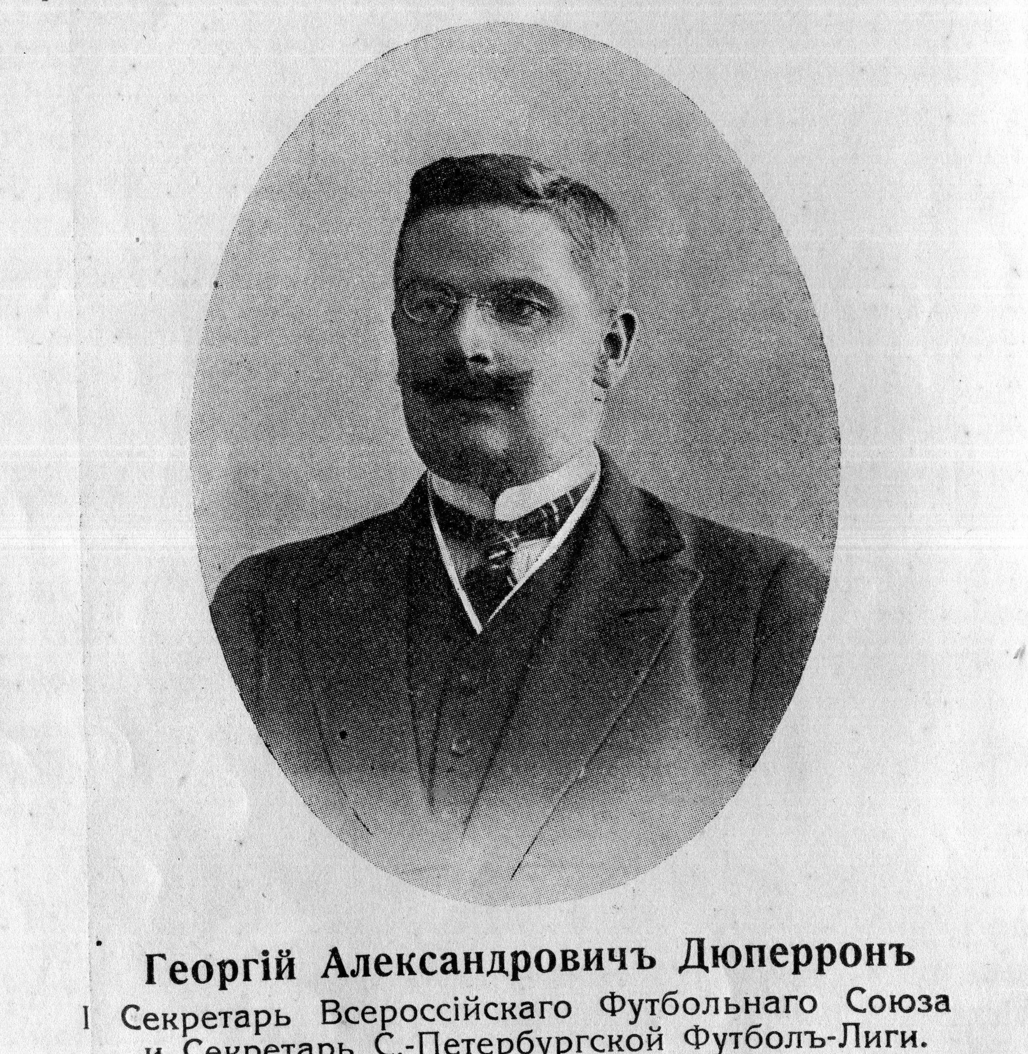 Georgiy Duperron (1877-1934) - president of the All-Russian Football Union (1915-1918)